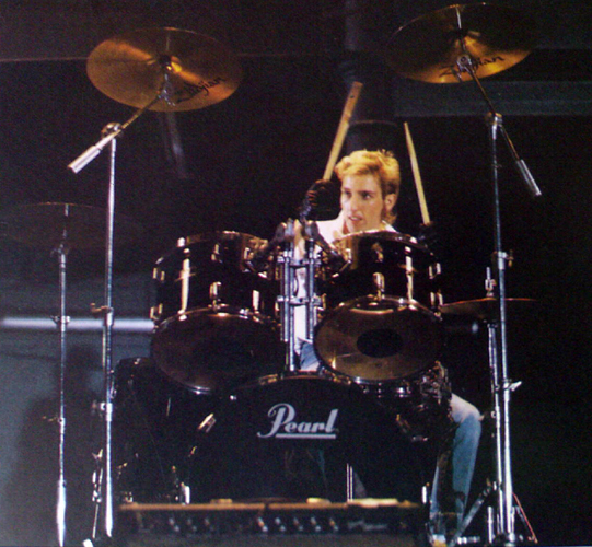 Dolphin Taylor in Spear of Destiny during rehearsals 1985.